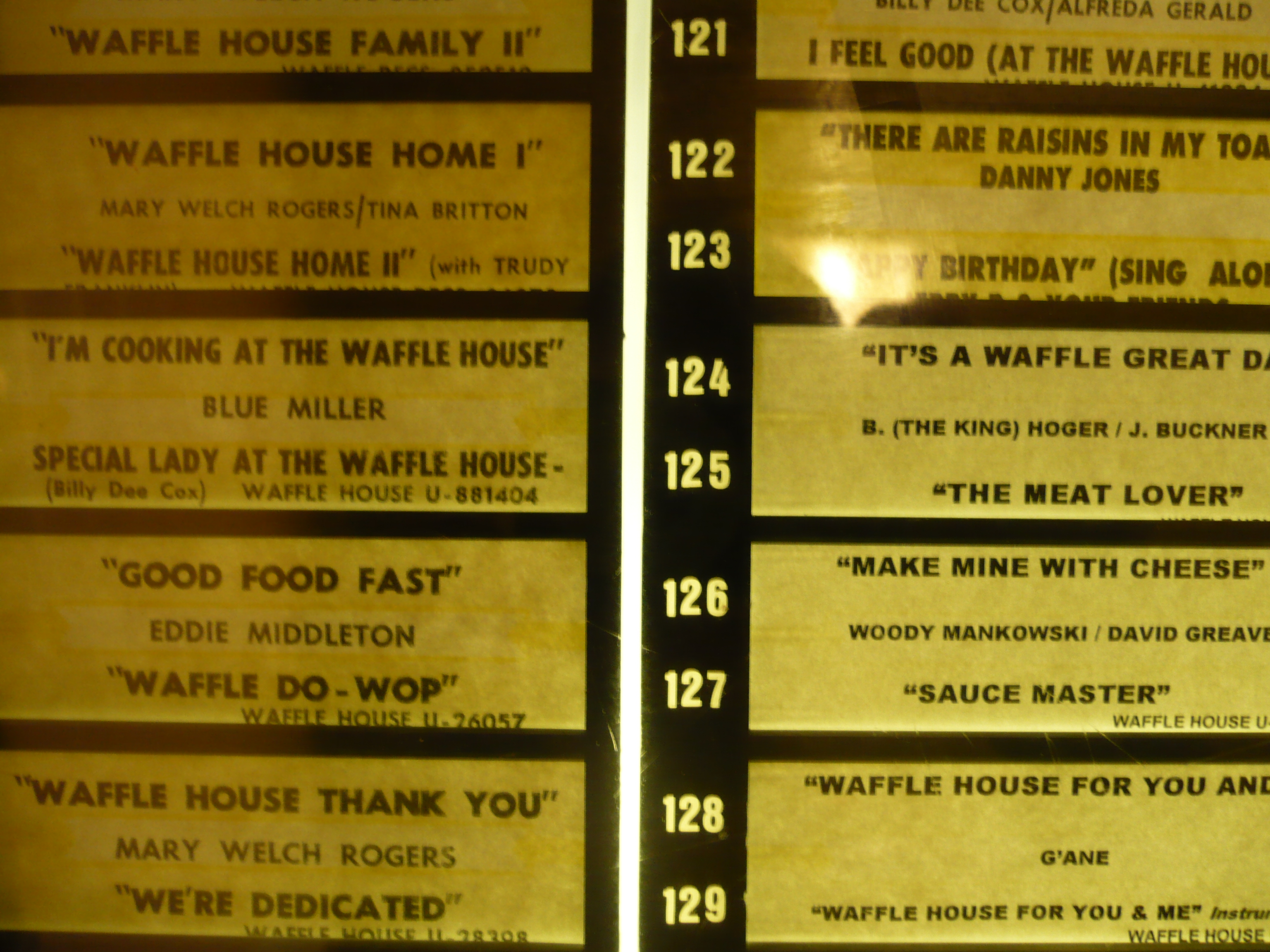 A jukebox in Waffle House